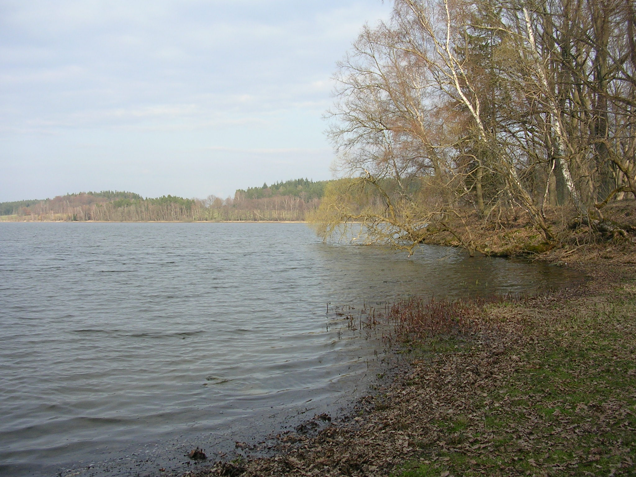 Kačlehy, Jindřichův Hradec District, the Czech Republic.